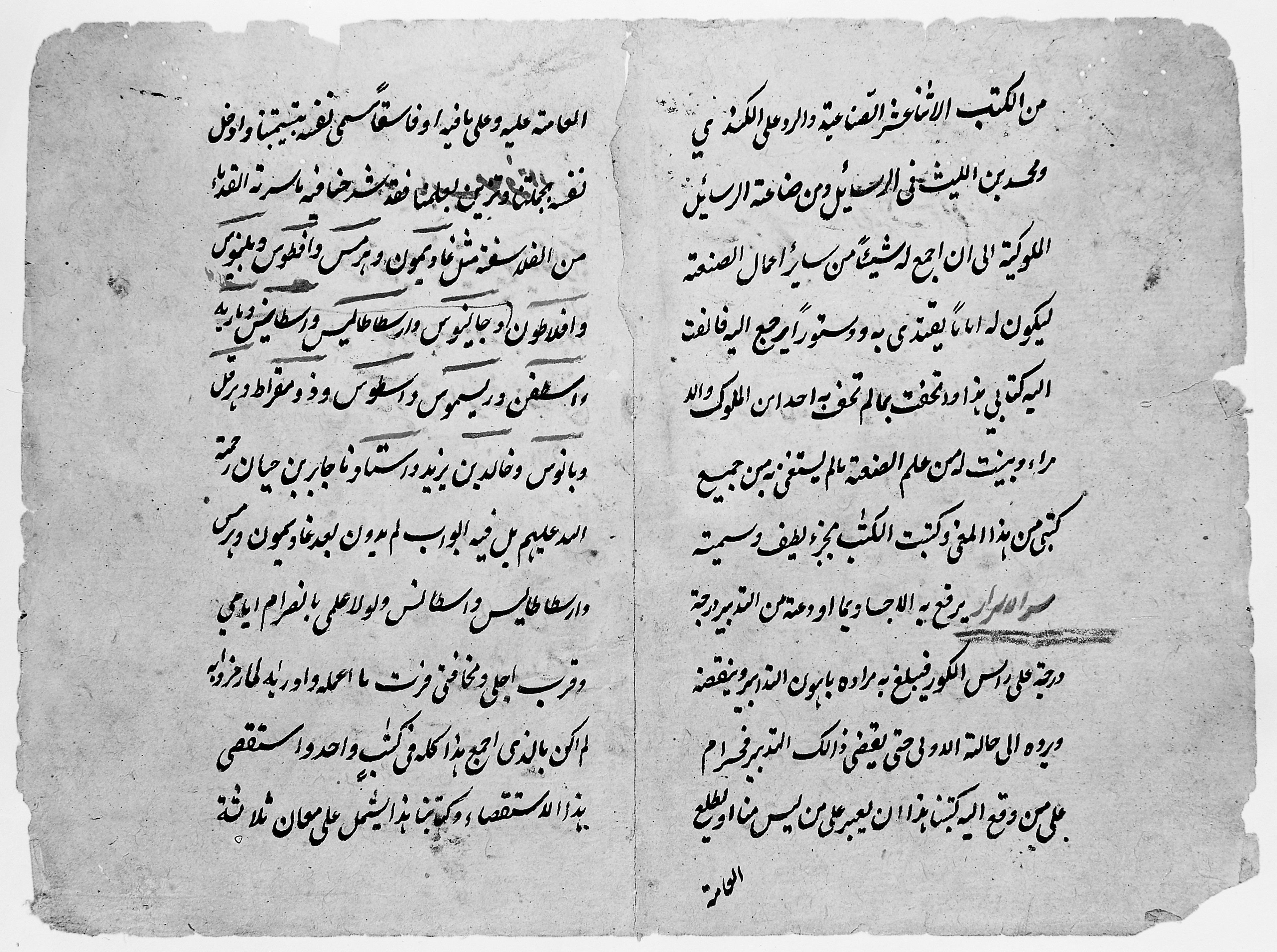 Page 2 Arabic manuscript on Alchemy by Razes Asian Collection Keywords: medicine, alchemy; Rhazes; alchemy, arabic